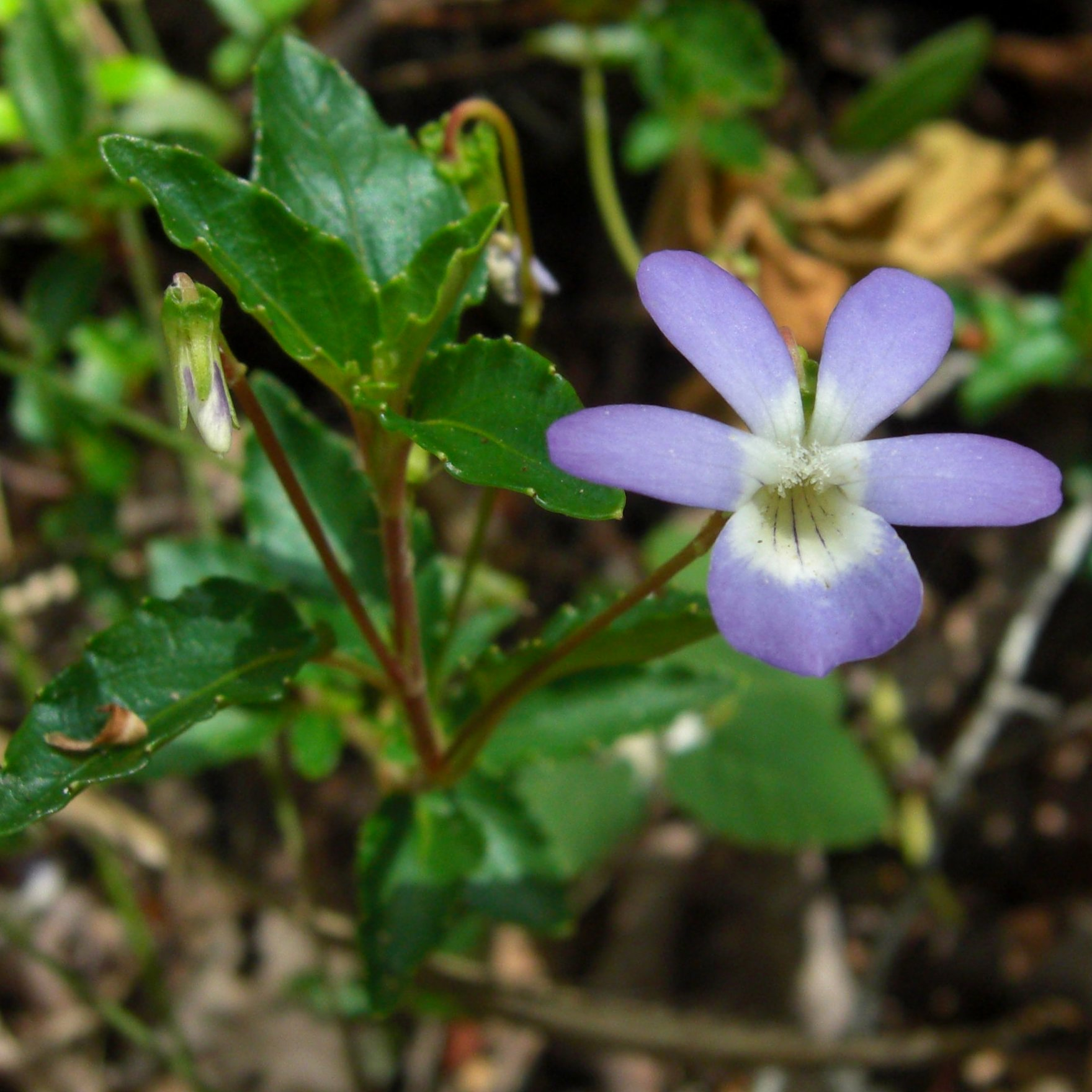 Viola portalesia Gay 20081129.24 Reserva Nacional Los Ruiles, Chile – Yeah, well "bush" may be overstating the case, but sure, this thing has almost-woody stems and can grow up to 20 cm tall. There are three other "bush" violets in Chile, one with yellow flowers.